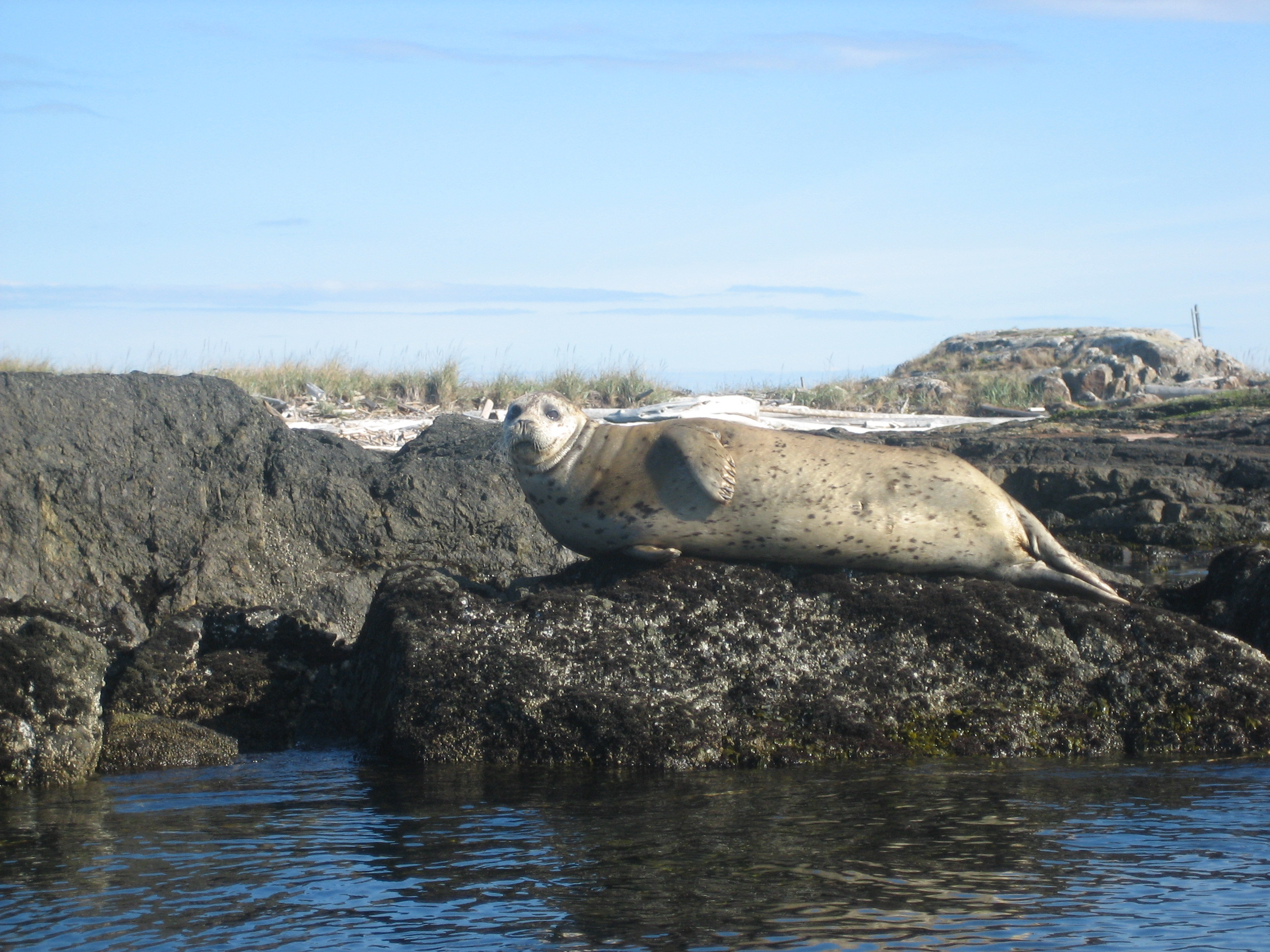 The Trial Islands are home to a large population of seals which are often found lounging on rocks around the shoreline, enjoying the sunshine.